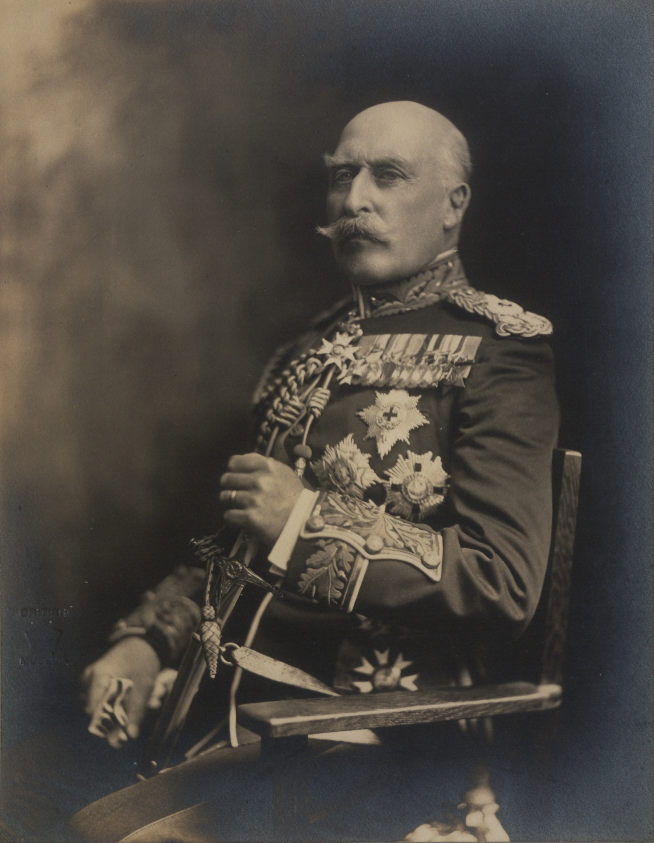 Original caption: “HRH Duke of Connaught. Photo C.”